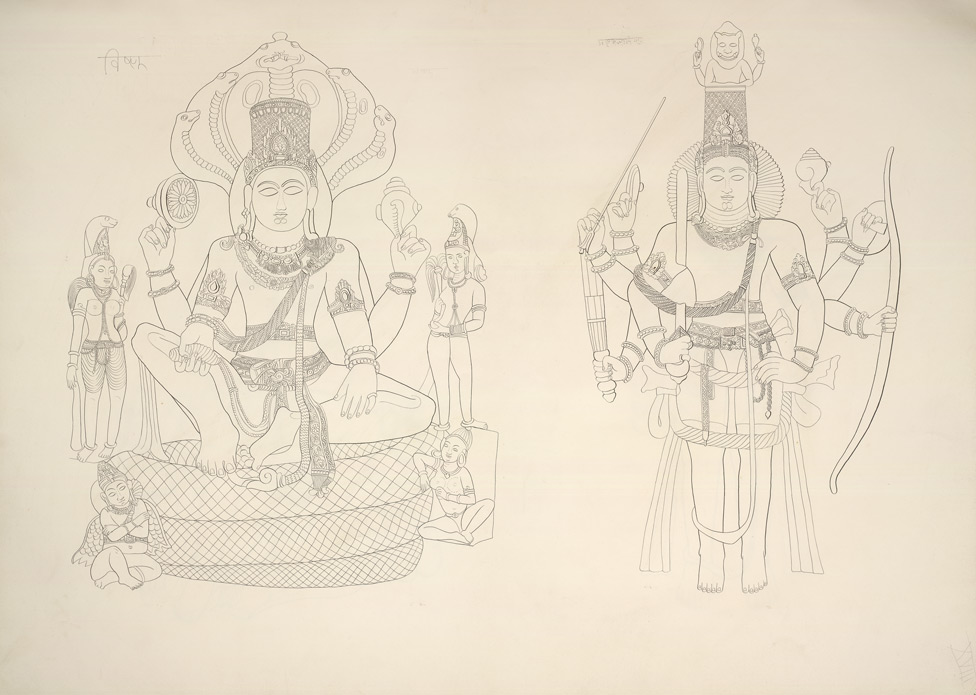 From the source, Pen-and-ink drawing of sculptures of Vaikuntha Vishnu and Ashtabhuja Vishnu from Cave III, Badami, by an Indian draftsman, dated 1853. The figure on the left in the drawing represents the sculpture of Vishnu seated on the coiled serpent Ananta, carved to the left of the porch of Cave III. He holds a wheel (chakra) in his upper left, a conch (shankha) in his upper right. The cosmic snake Ananta or Shesa is a symbol of the never-ending cyclic time. The figure on the right represents an eight-armed Vishnu. Badami, formerly known as Vatapi, was the capital of the Early Chalukya Hindu dynasty rulers in the 6th - 8th centuries. The town is situated between two rocky hills of red sandstone that surround an artificial lake called the Agastya Tirtha. There are two forts that overlook the town. Around the south fort there are four rock-cut shrines while structural temples dominate the site on the opposite north fort. Cave III was excavated during the reign of the Early Chalukya ruler Pulakeshin I in 578 CE and it is the finest of the caves of Badami. It has an elaborate sculptural ornamentation and consists of a long porch, a pillared hall (mandapa) and the small square sanctuary.